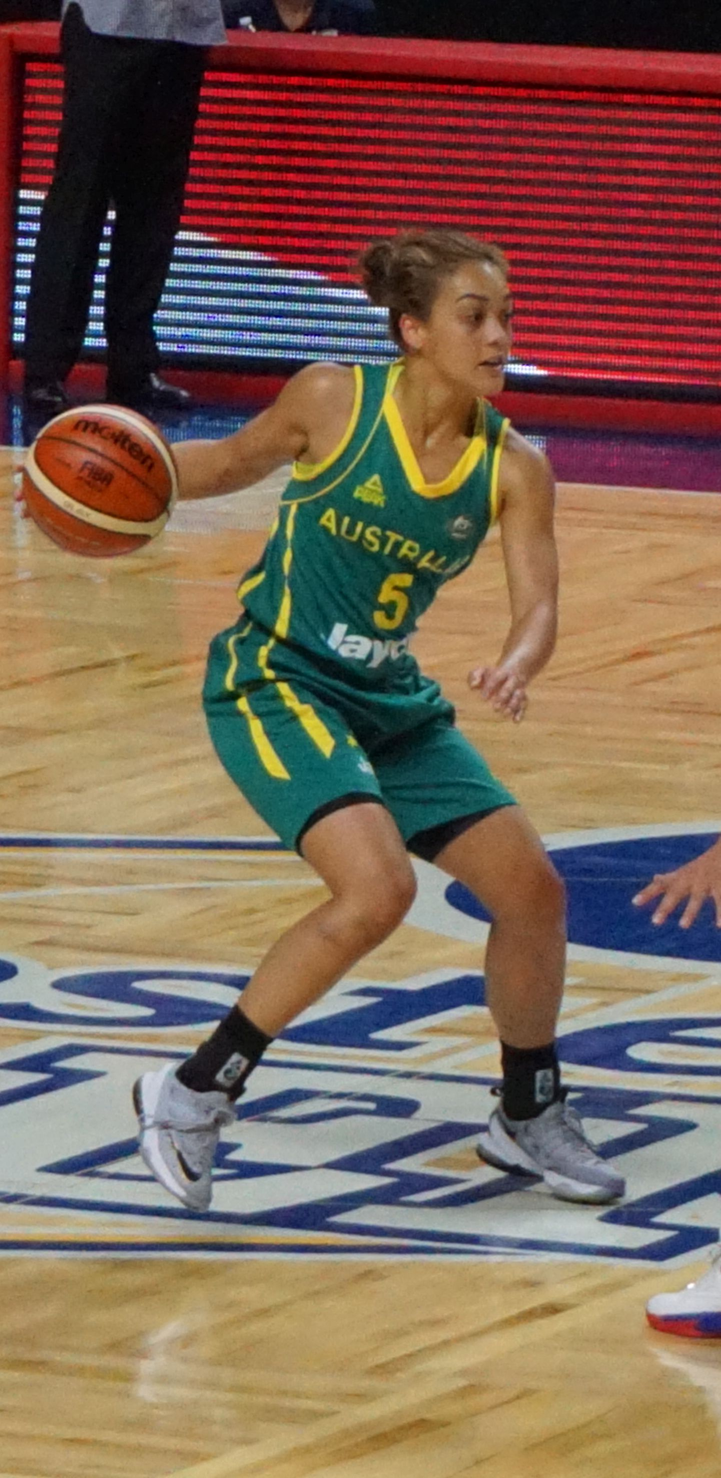 Leilani Mitchell, Australian National Senior team. Taken at Webster Bank Arena (Bridgeport, CT) at the Olympic exhibition game between Australia and France